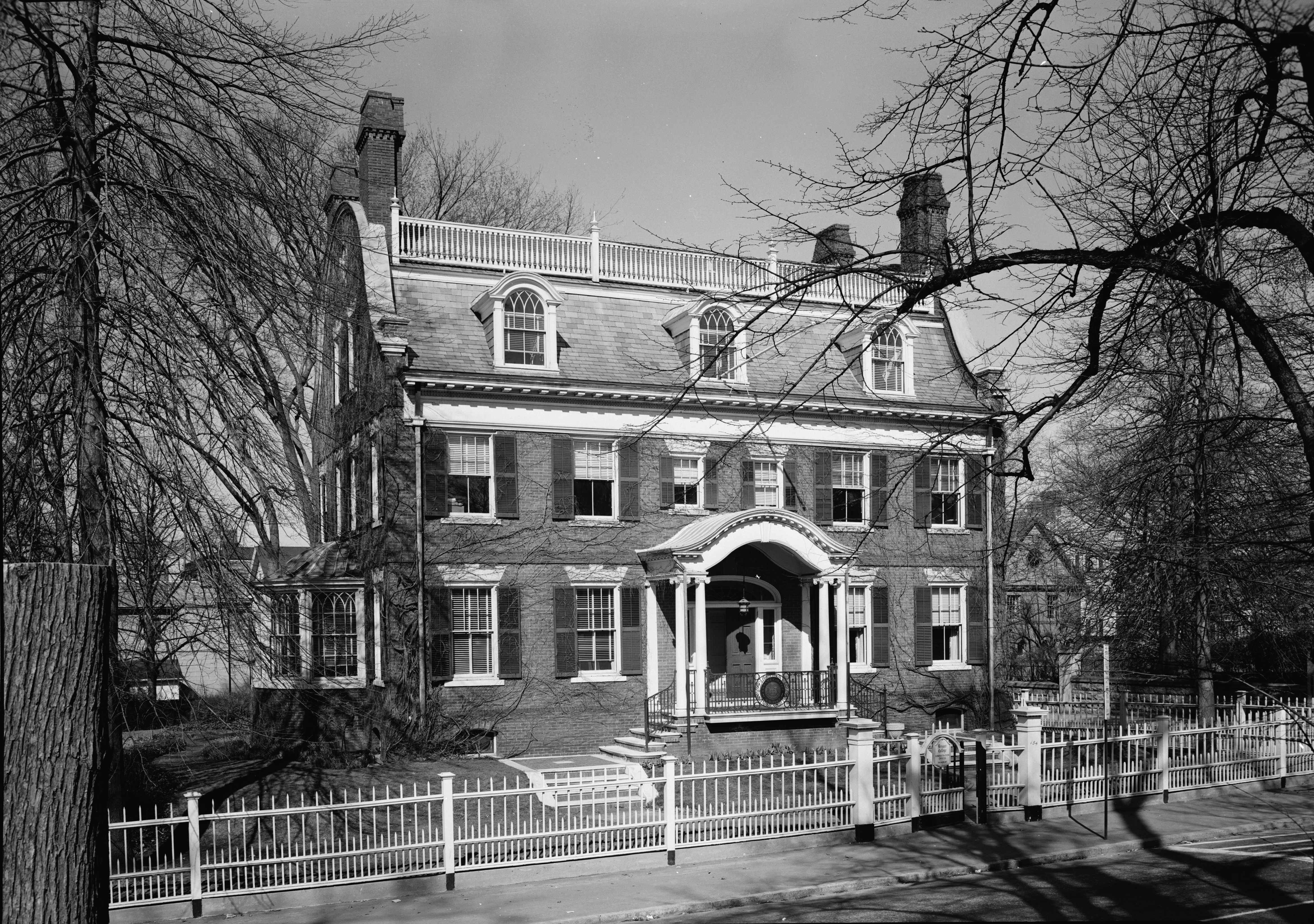 The Taft House, located on the campus of Brown University in Providence, Rhode Island. It is now a chapter of St Anthony Hall.